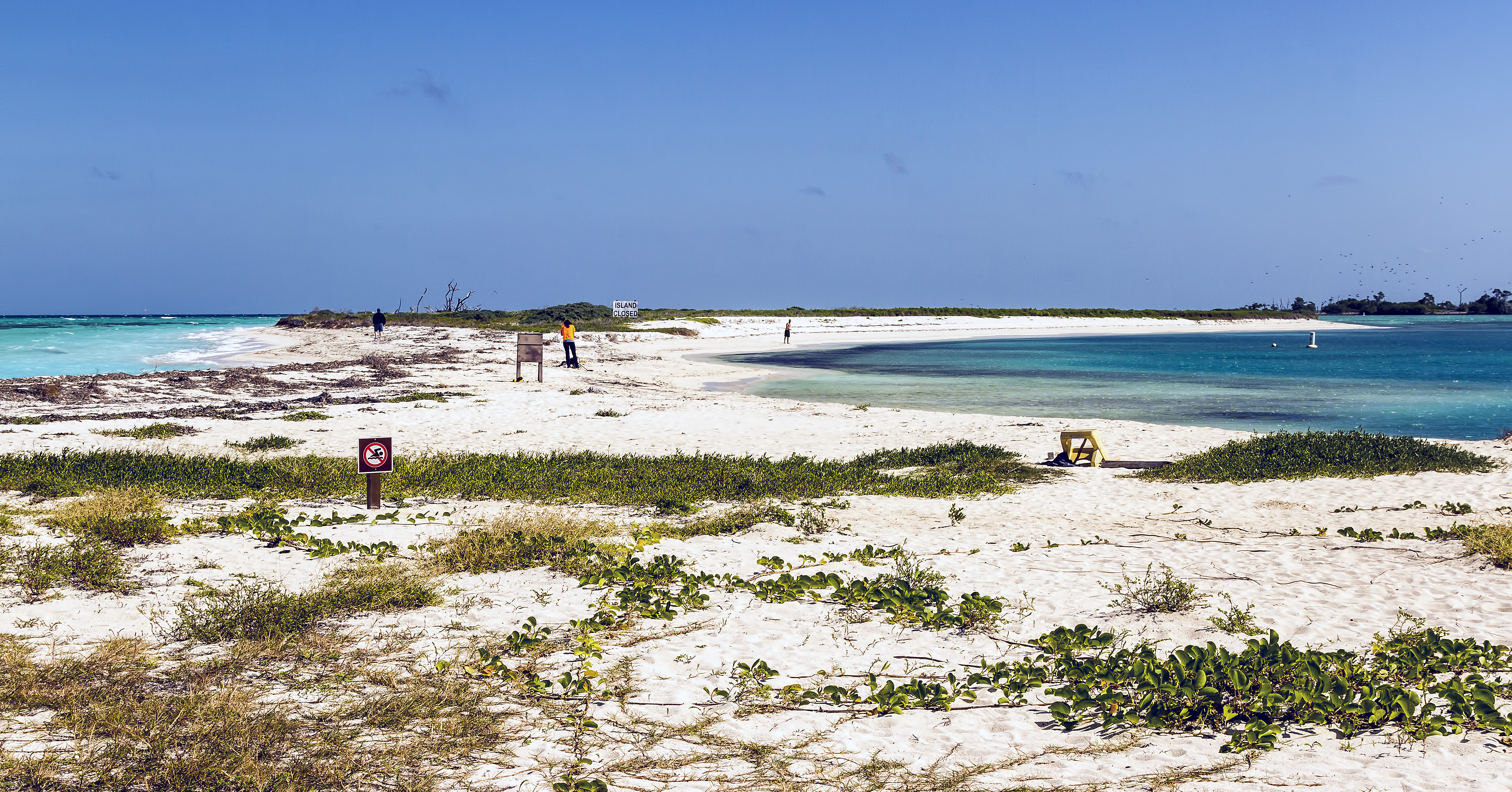 Bush Key with Long Key in the distance from Garden Key, Dry Tortugas National Park, Florida, USA